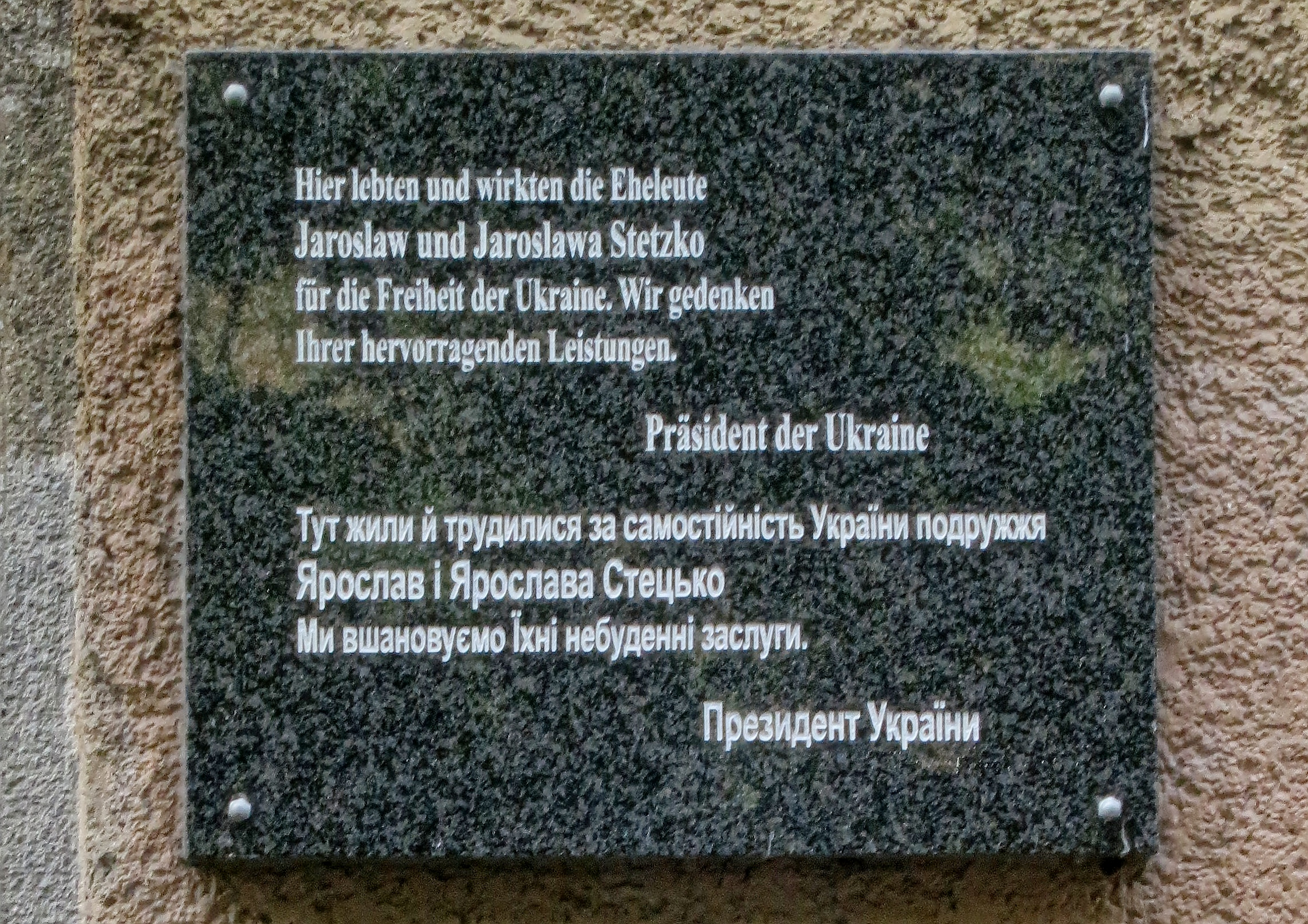 Memorial plaque Steztko in Munich, Zeppelinstraße 67